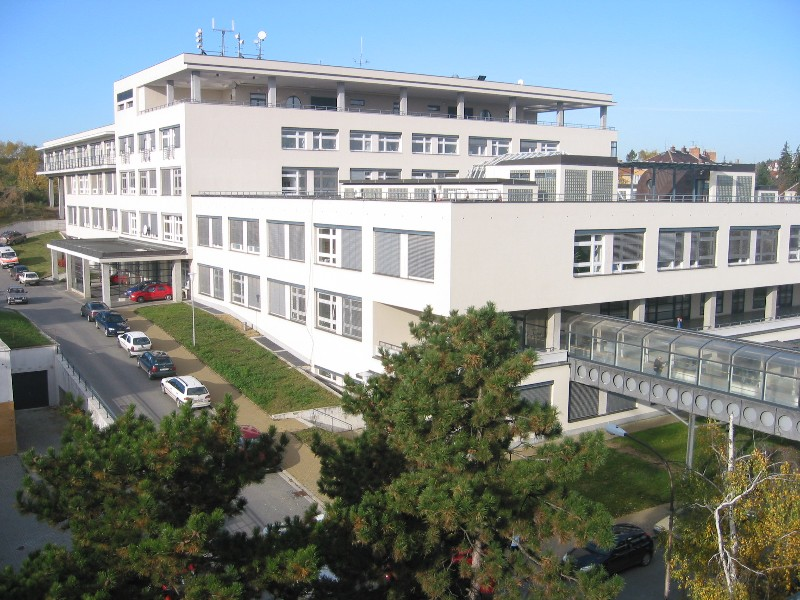 Švejdův pavilon